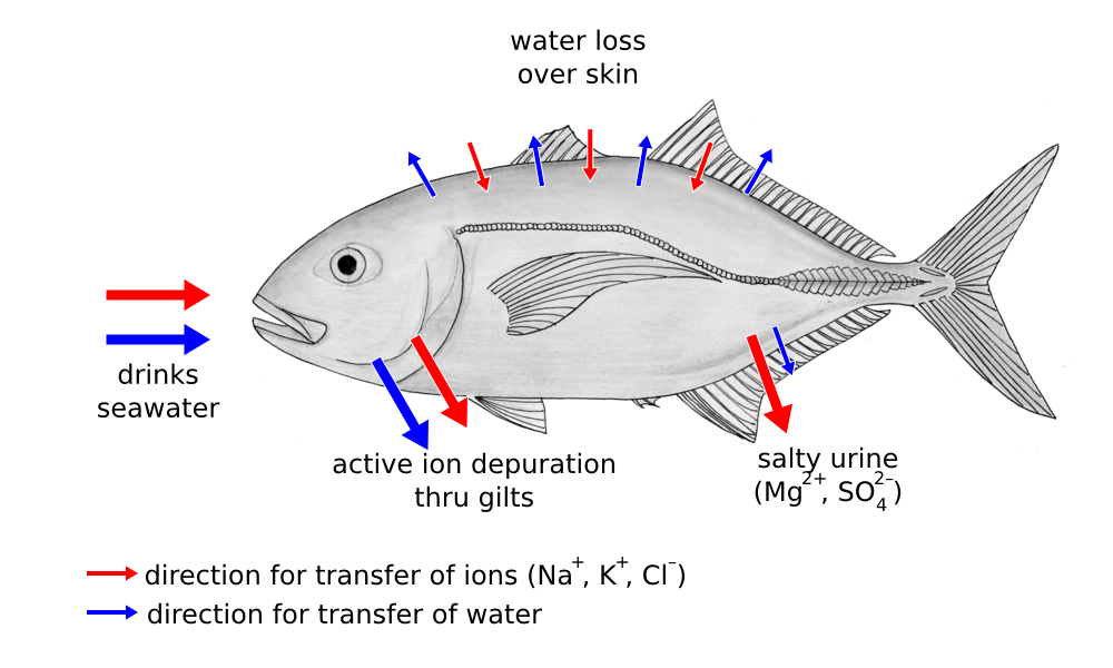 Osmoregulation